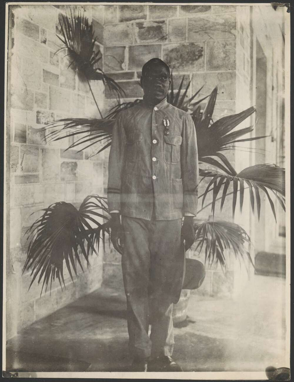 Portrait of Aya-I-Ga, also known as Neighbour and Nipper was awarded the Albert medal, 1912 by His Majesty King George V]